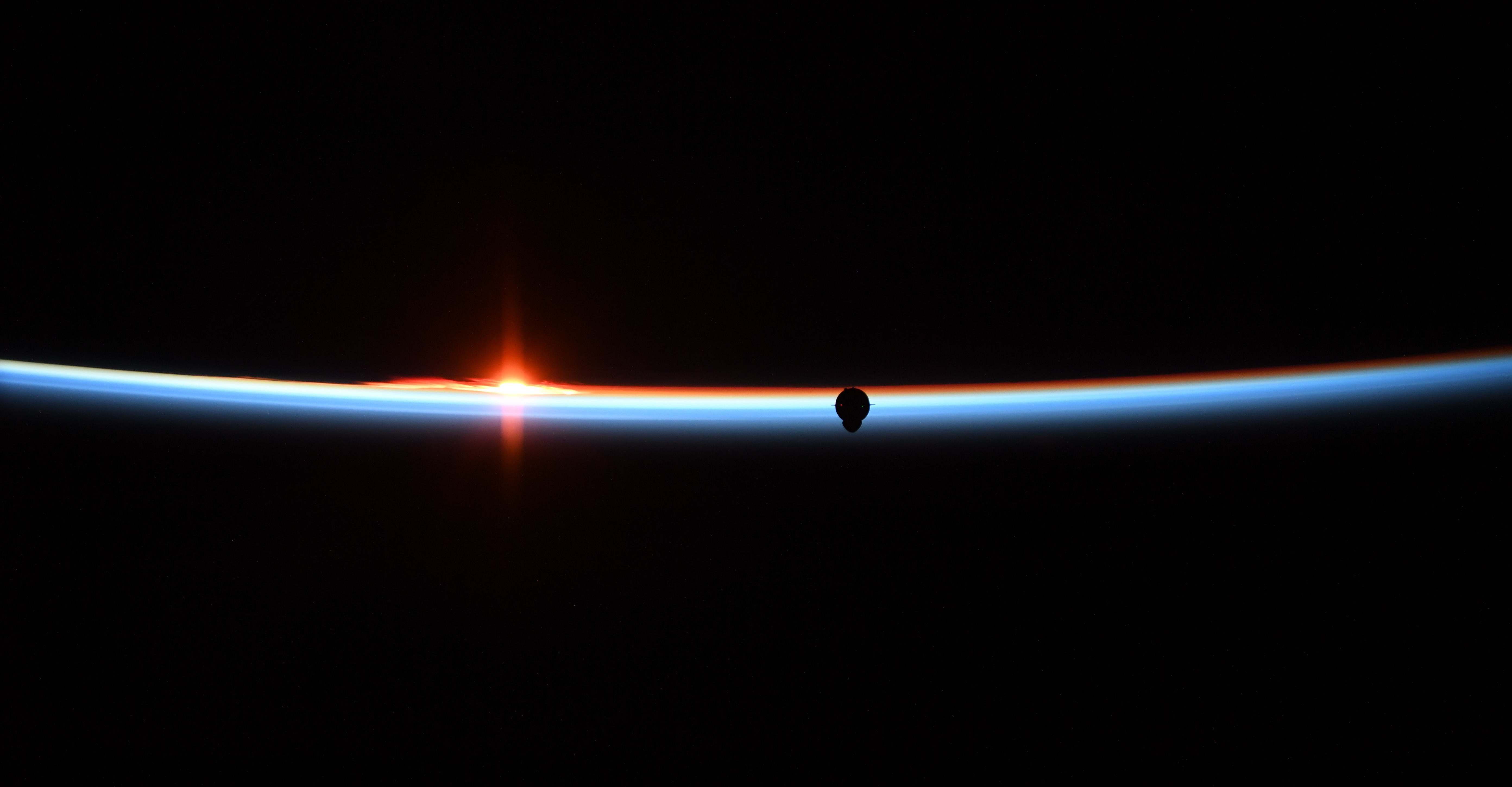 "The dawn of a new era in human spaceflight," NASA astronaut Anne McClain tweeted with this image.